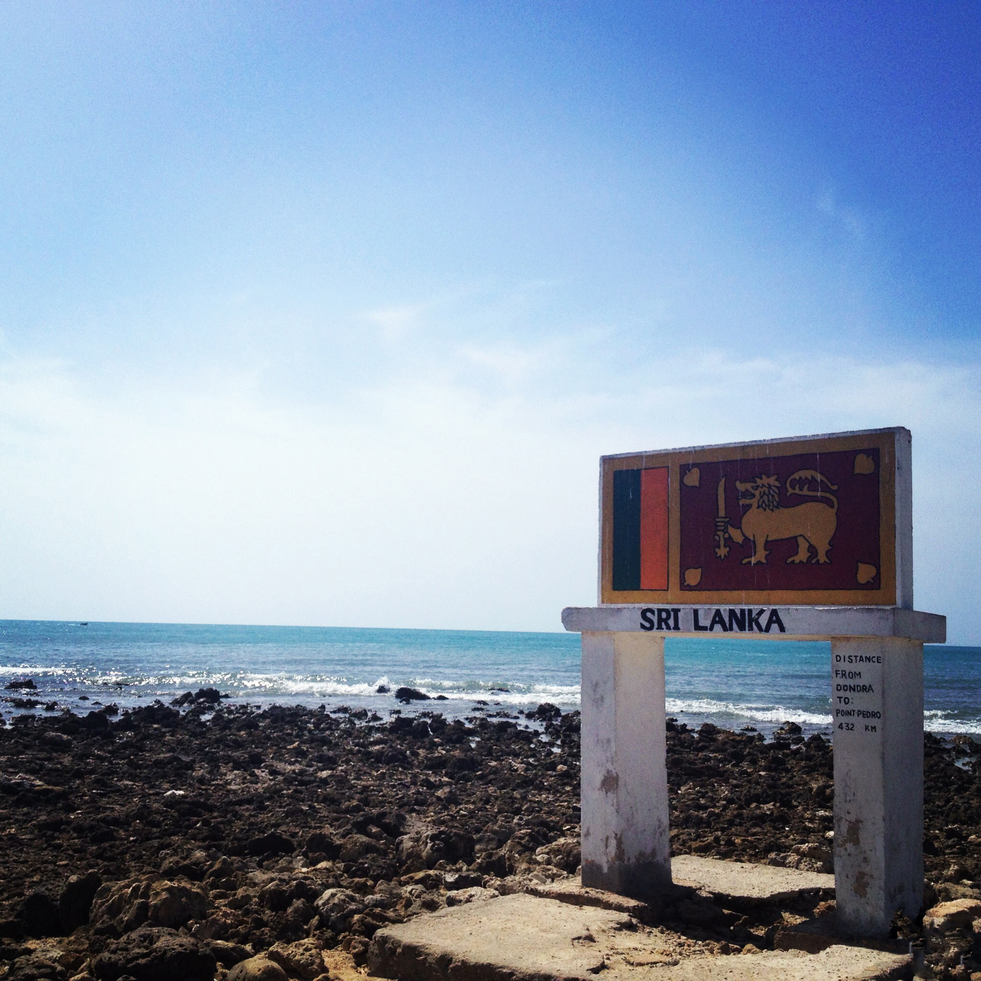 a shot of sri lanka's northernmost point.